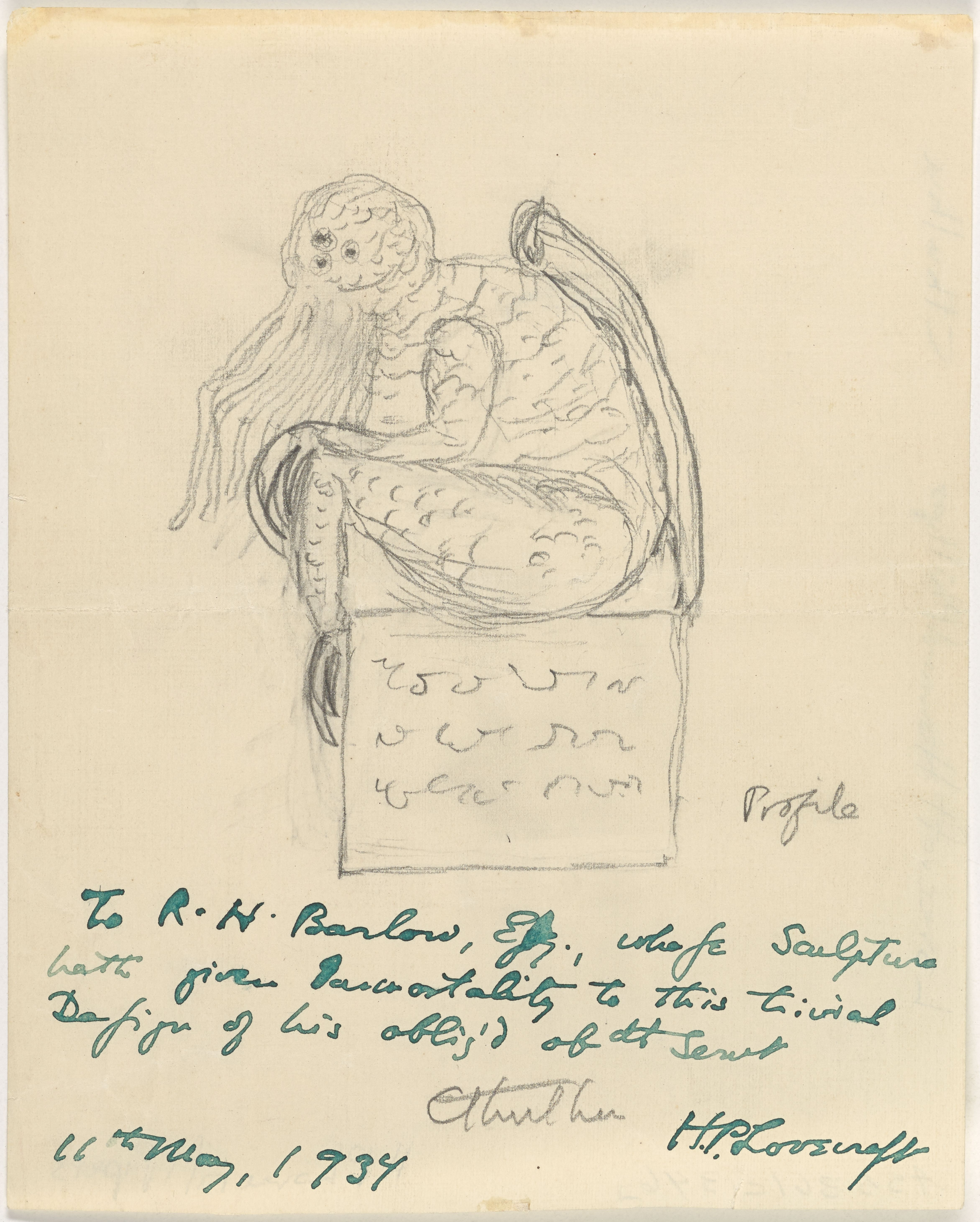 Cthulhu pencil drawing seen from the front, back and profile.